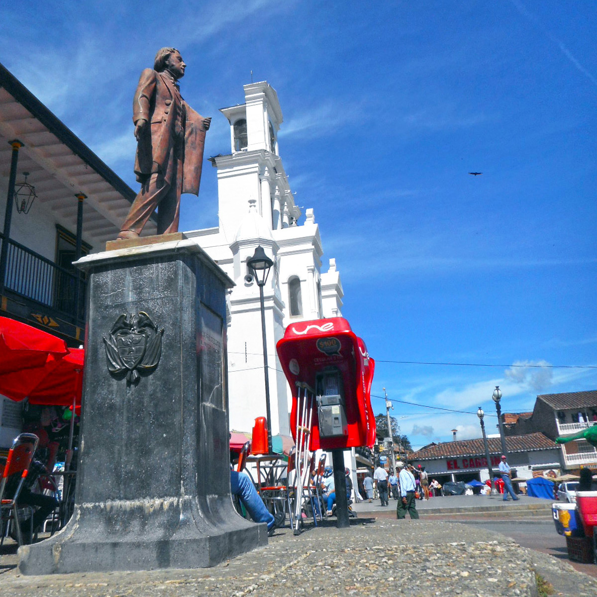 Monumento y Catedral en la plaza